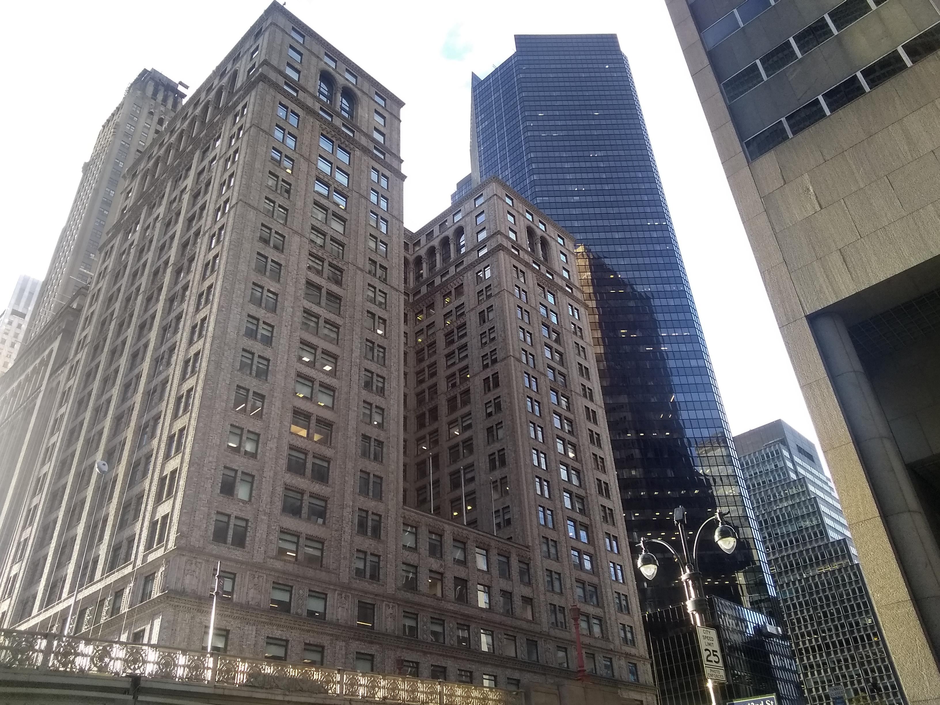 Exterior of the Pershing Square Building in Manhattan, New York